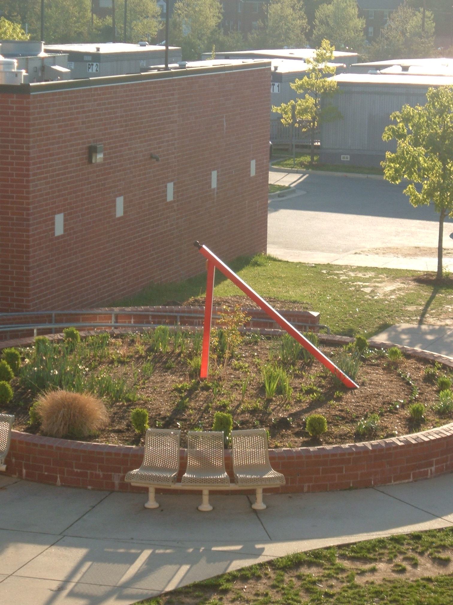 This photo was taken by myself, User:Joturner, on April 26, 2006. It is of the sundial in the east courtyard of Montgomery Blair High School.